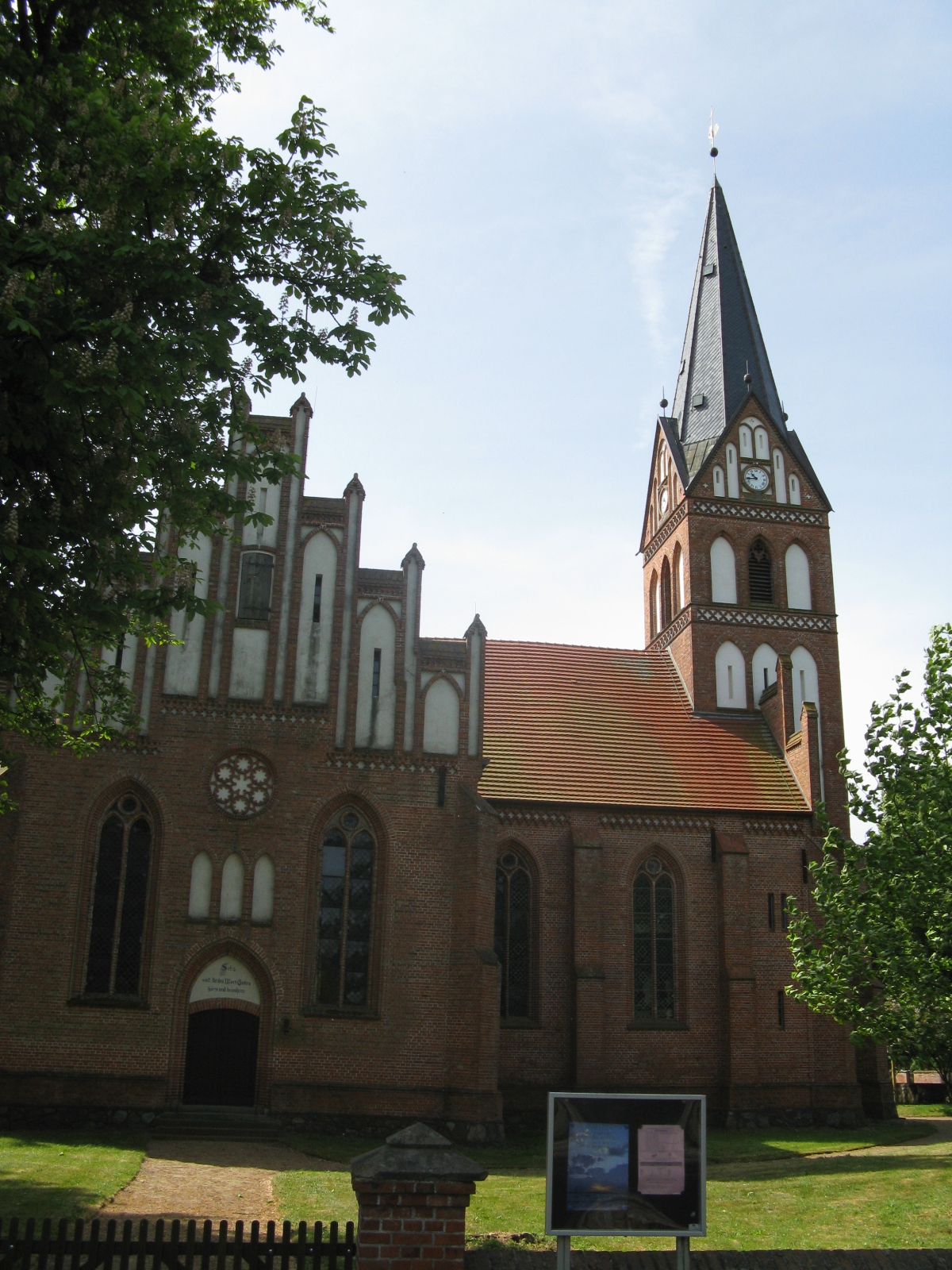 Church in Leussow, district Ludwigslust-Parchim, Mecklenburg-Vorpommern, Germany